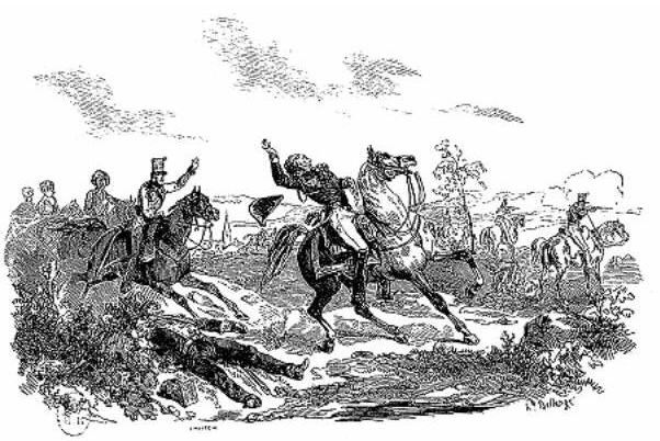 Death of Marshal of the Empire Jean-Baptiste Bessieres, struck by a cannonball on 1 May 1813, near Rippach, Lutzen, Saxony. Illustration published in the book of Emile-Marc ('Marco') Saint-Hilaire (1793-1887) entitled 'Histoire de la Garde Imperiale', published in 1830.